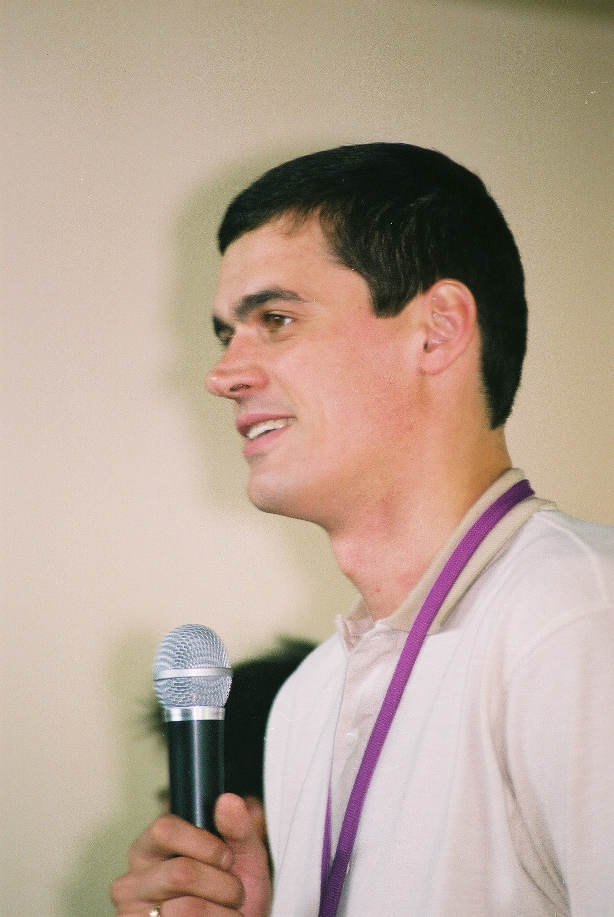 Olympic swim champ Alexander Popov